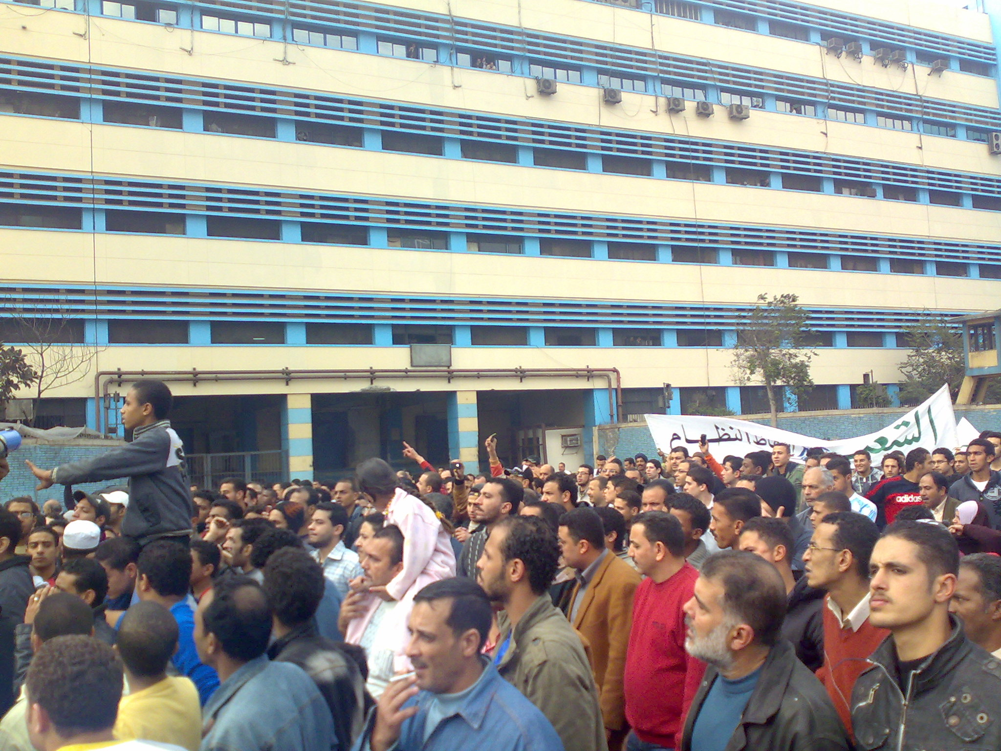 28 January Demo in Cairo.